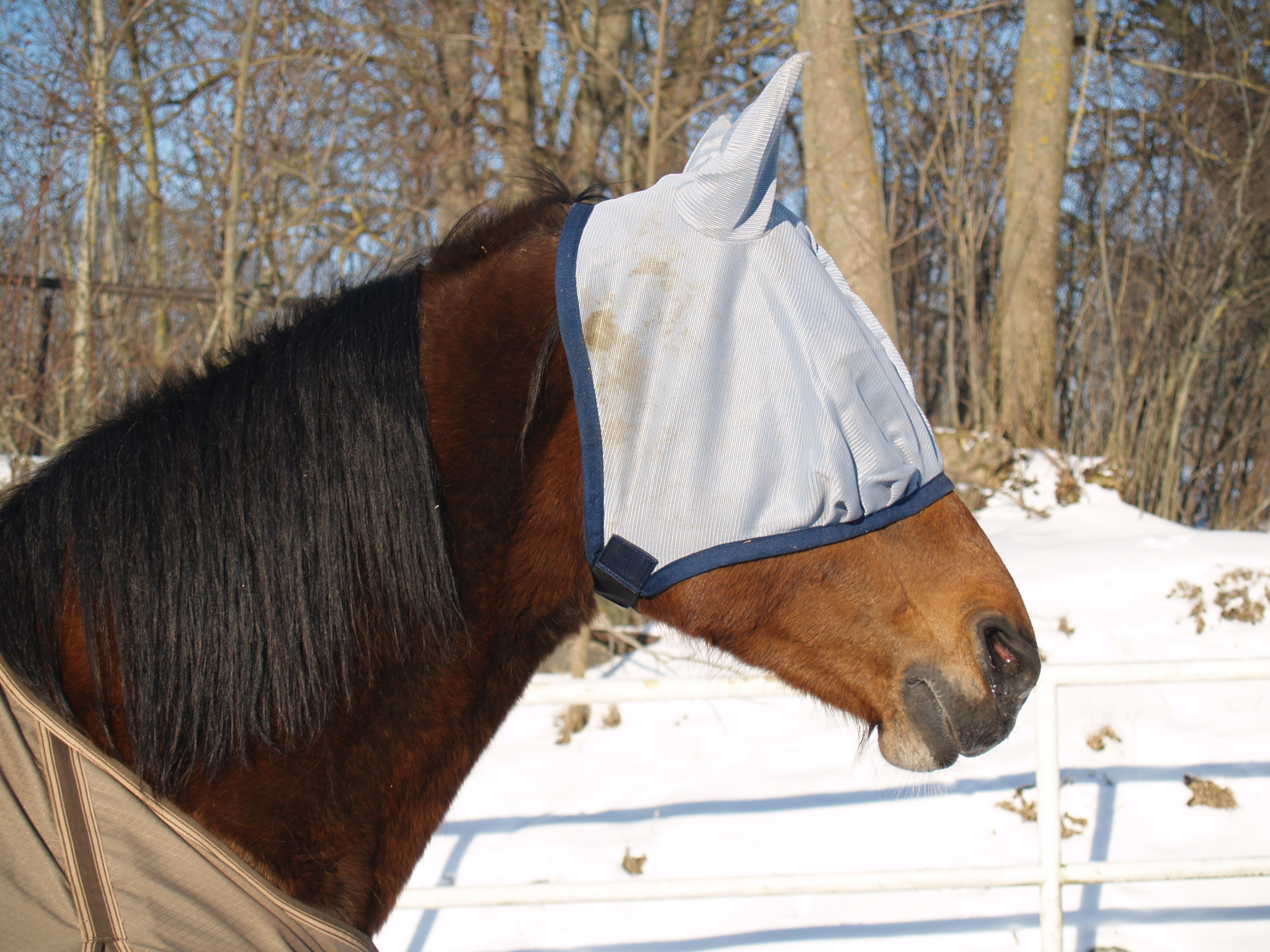 A Horse wearing a fly mask (in the winter) covering its ears and eyes.